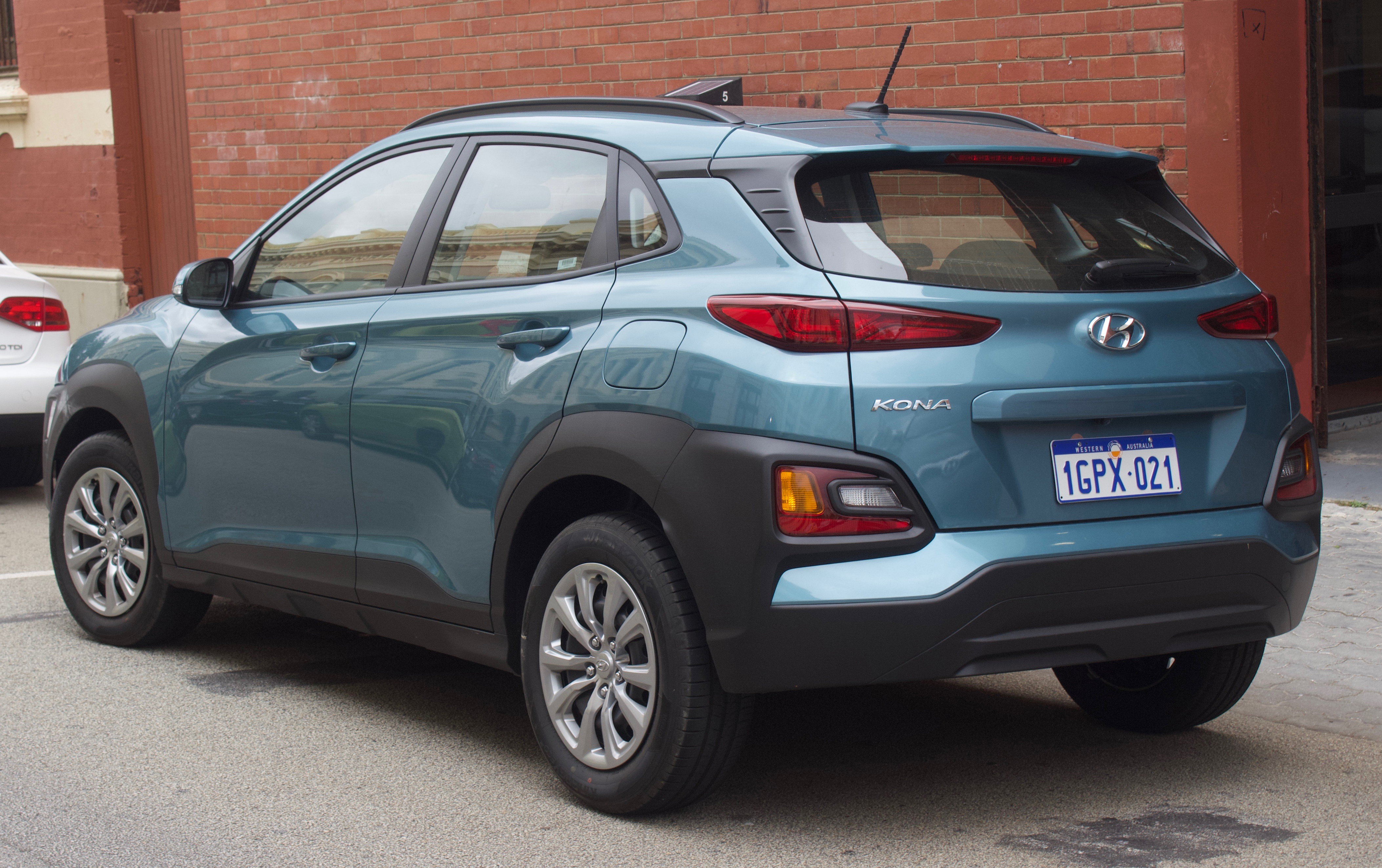 2018 Hyundai Kona (OS II MY19) Go 2WD wagon. Photographed in Fremantle, Western Australia, Australia.